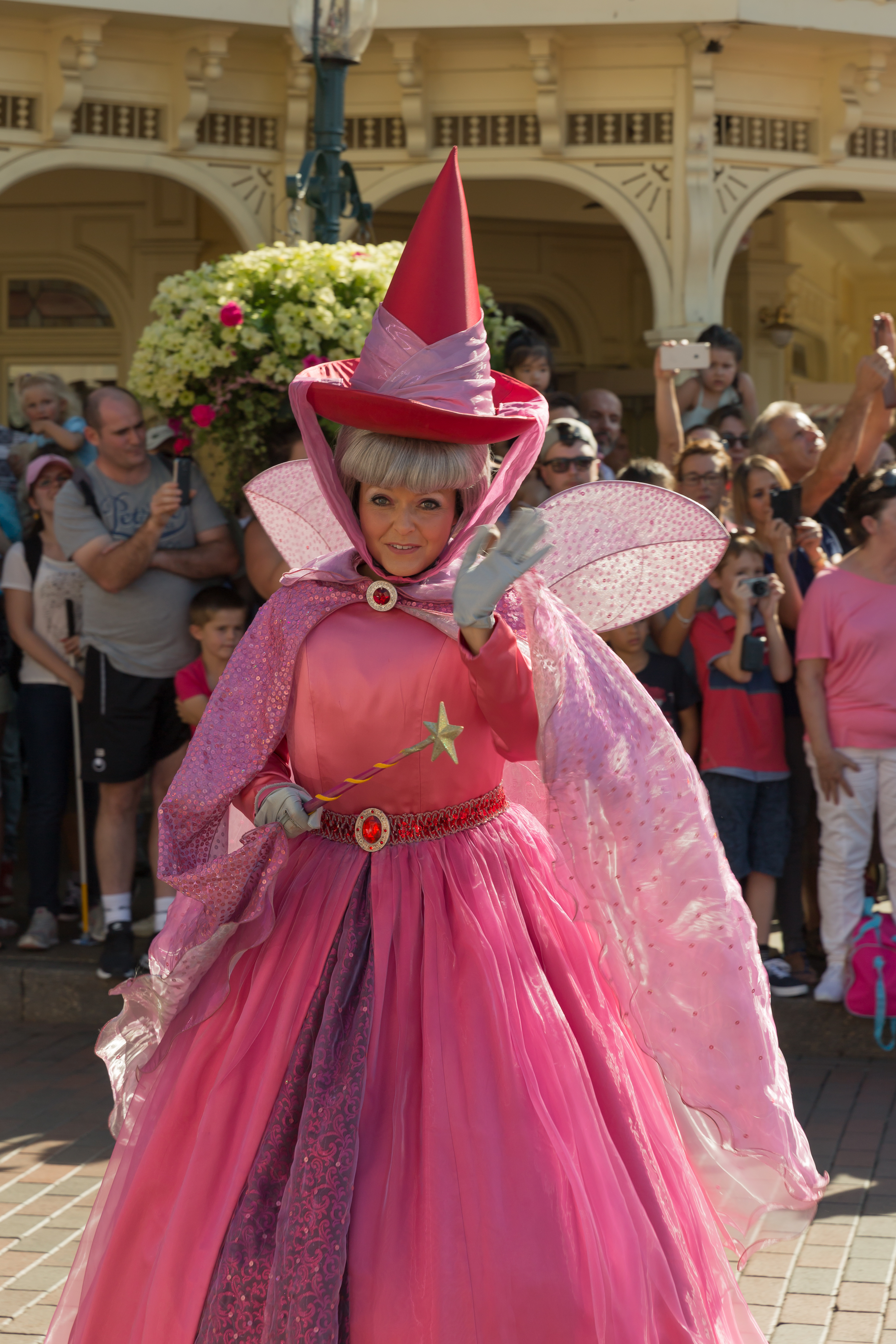 Flora in The Sleeping Beauty at the Disney Magic On Parade in Disneyland Paris.